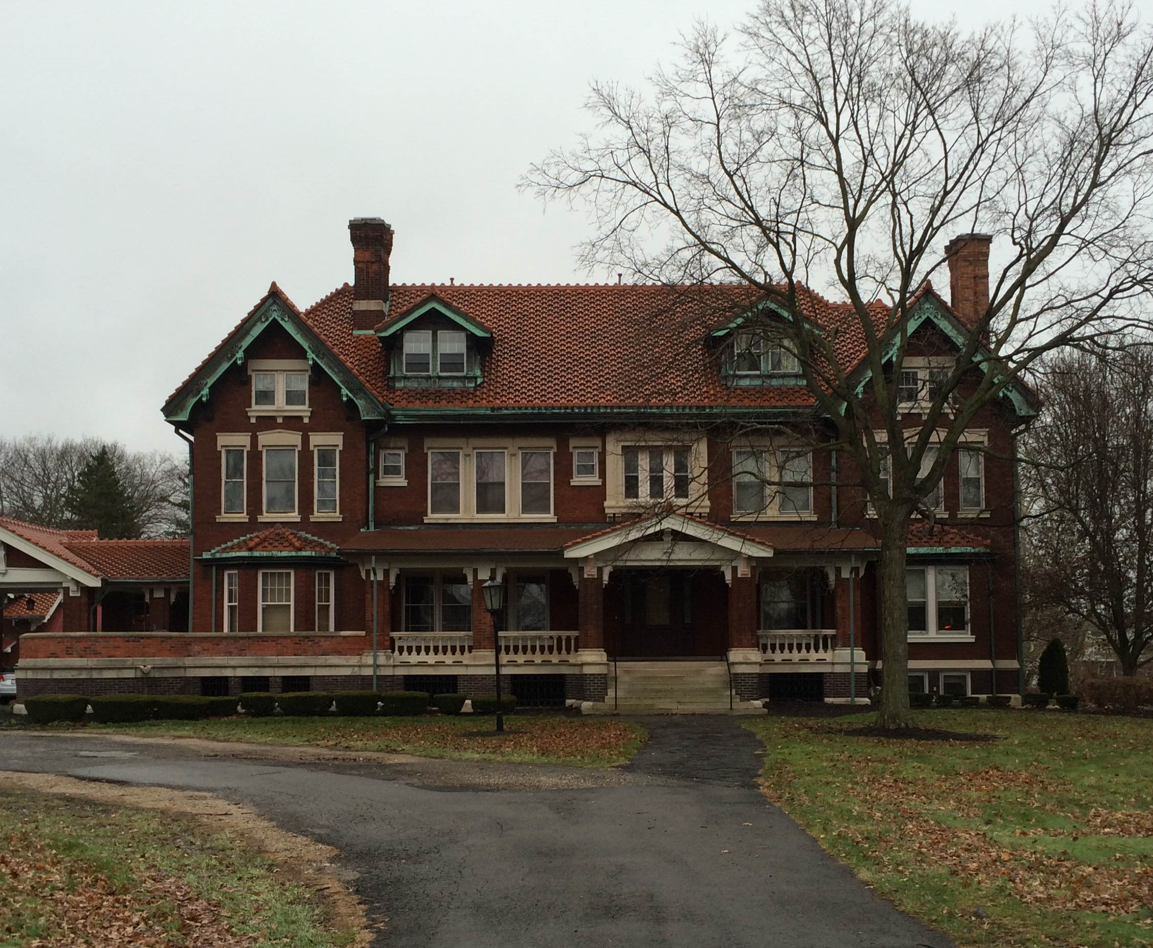 This is a picture of the Mansion Day School in Woodland Park, a neighborhood in Columbus, OH